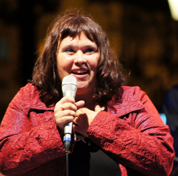 Jazz vocalist Mia Žnidarič performing in Ljubljana, Slovenia